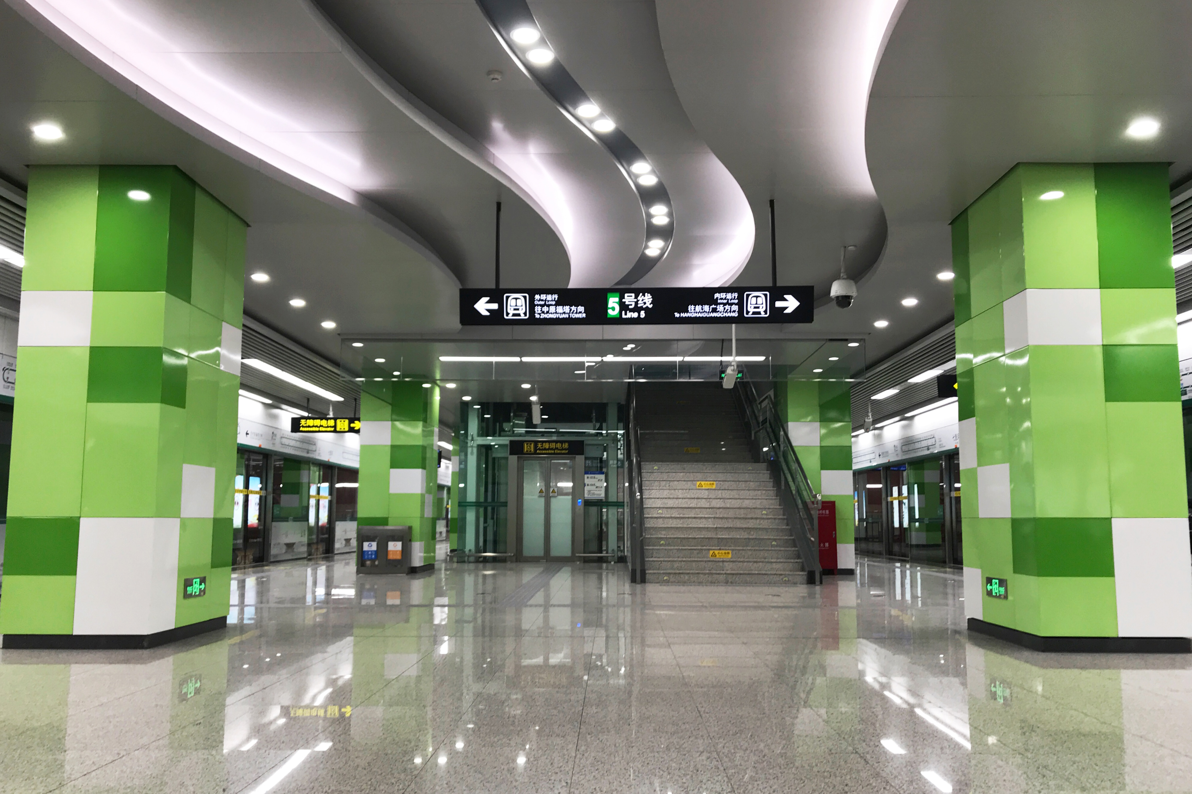 Platform of Zhengzhou Metro Qilihe Station